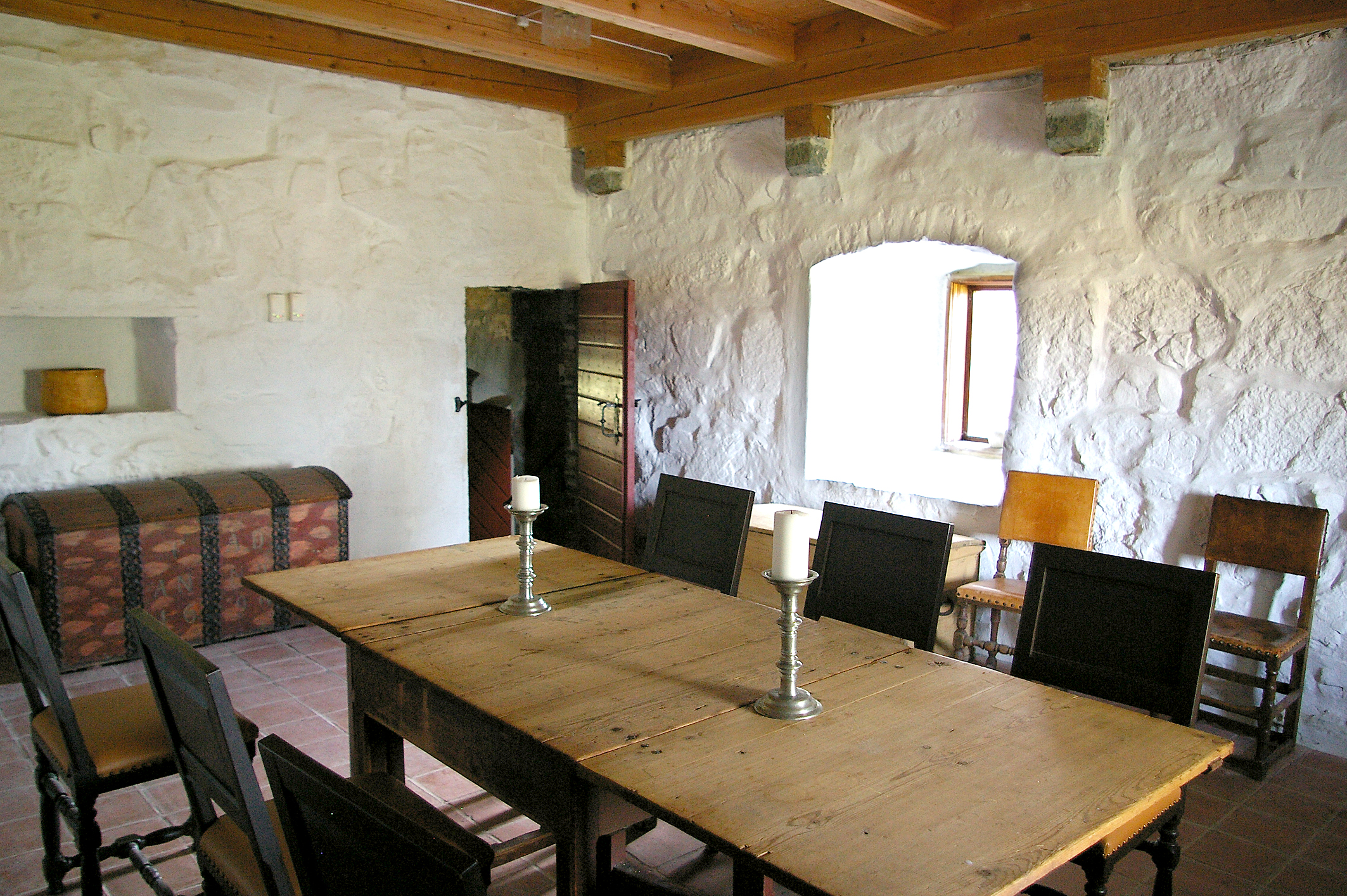 One of the oldest Stone buildings in Norway, still remaining.